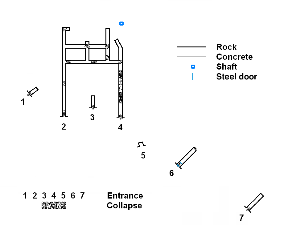 Diagram of the underground complex Jugowice, a part of the project Riese.